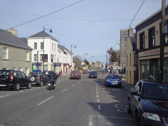 Main Street (R336 regional road), Spiddal, Co Galway Spiddal facing east.